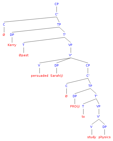 This is a syntactic tree diagram of the sentence "Kerry persuaded Sarah to study physics" in order to show the relation of PRO ('big pro') to a secondary subject.